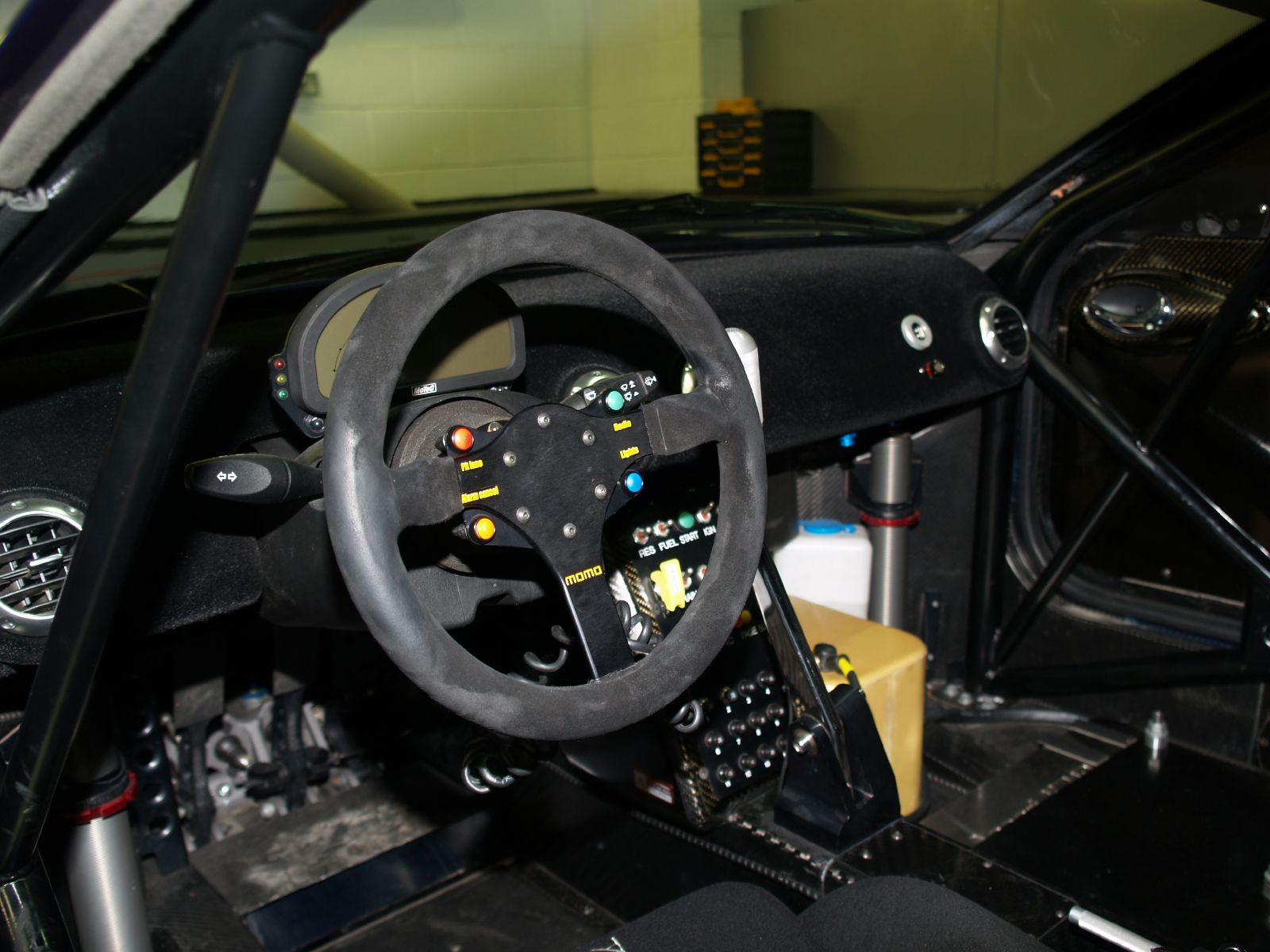 The interior of an Ascari KZ1R GT3 at the Ascari Race Resort